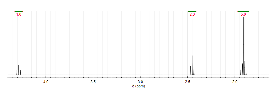 The HNMR spectroscopy of n-acetylglutamic acid